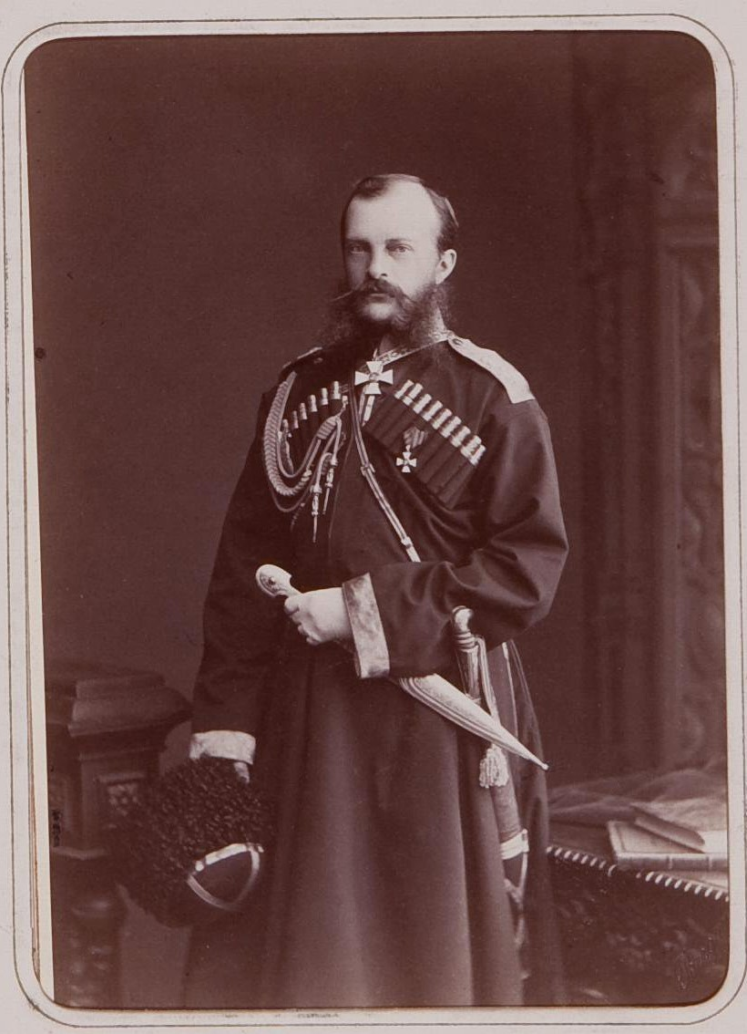 Grand Duke Michael Nikolaevich of Russia